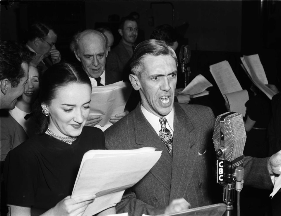 The singer Lucille Dumont and comic singer Rolland Bédard, dubbed the "Fernandel canadien" micro at the "Soirée du samedi soir" broadcast by Radio-Canada station in Montreal. We see behind the actors Jean-Pierre Masson and Fred Barry.